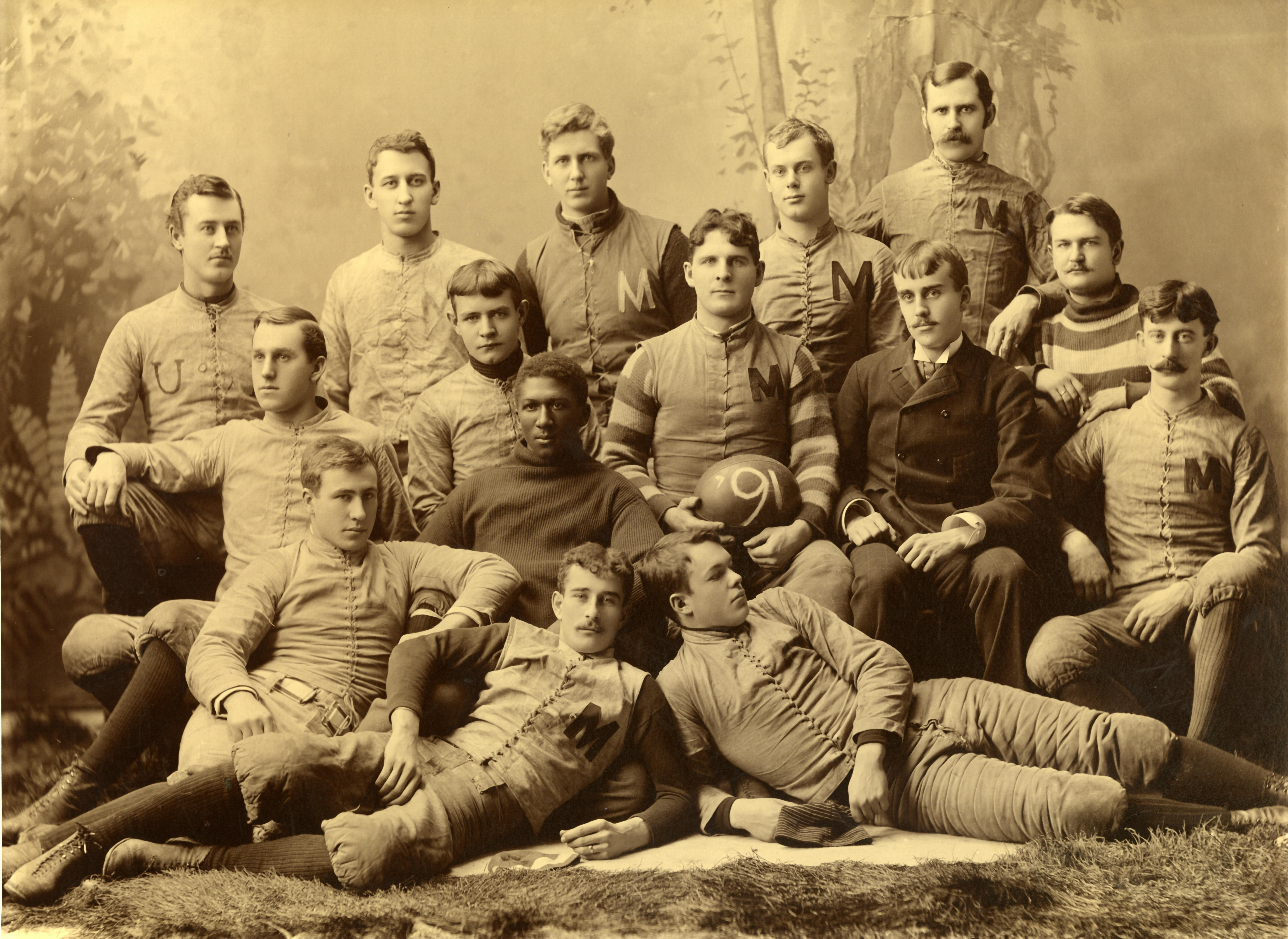 Official photograph of 1890 University of Michigan football team